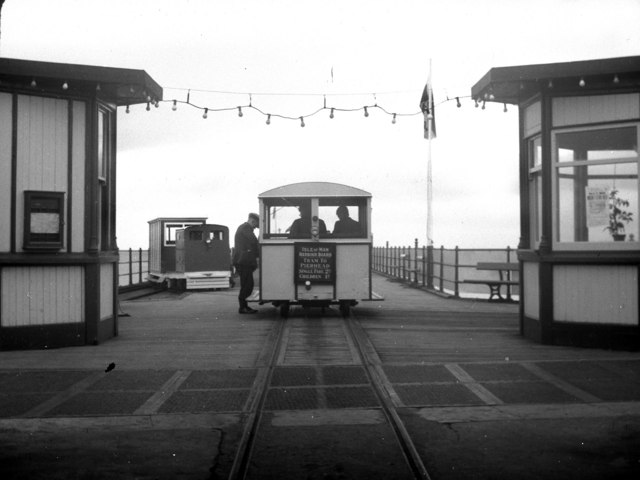 The Queens Pier Tram, Ramsey This 3ft gauge line saved quite a long walk to the end of the pier. The motive power was this Wickham railcar, and the single fare was 2d. On the left can be seen the Planet locomotive and coach, which were sometimes used if the Wickham car was out of action. This tramway has now completely disappeared.